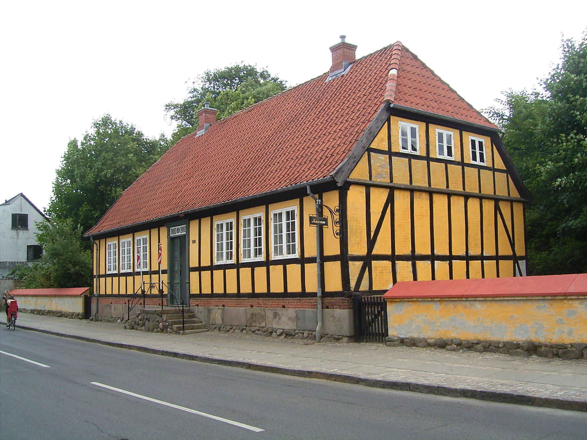 Hobro oldest house from 1821 forms the framework for local history museum.